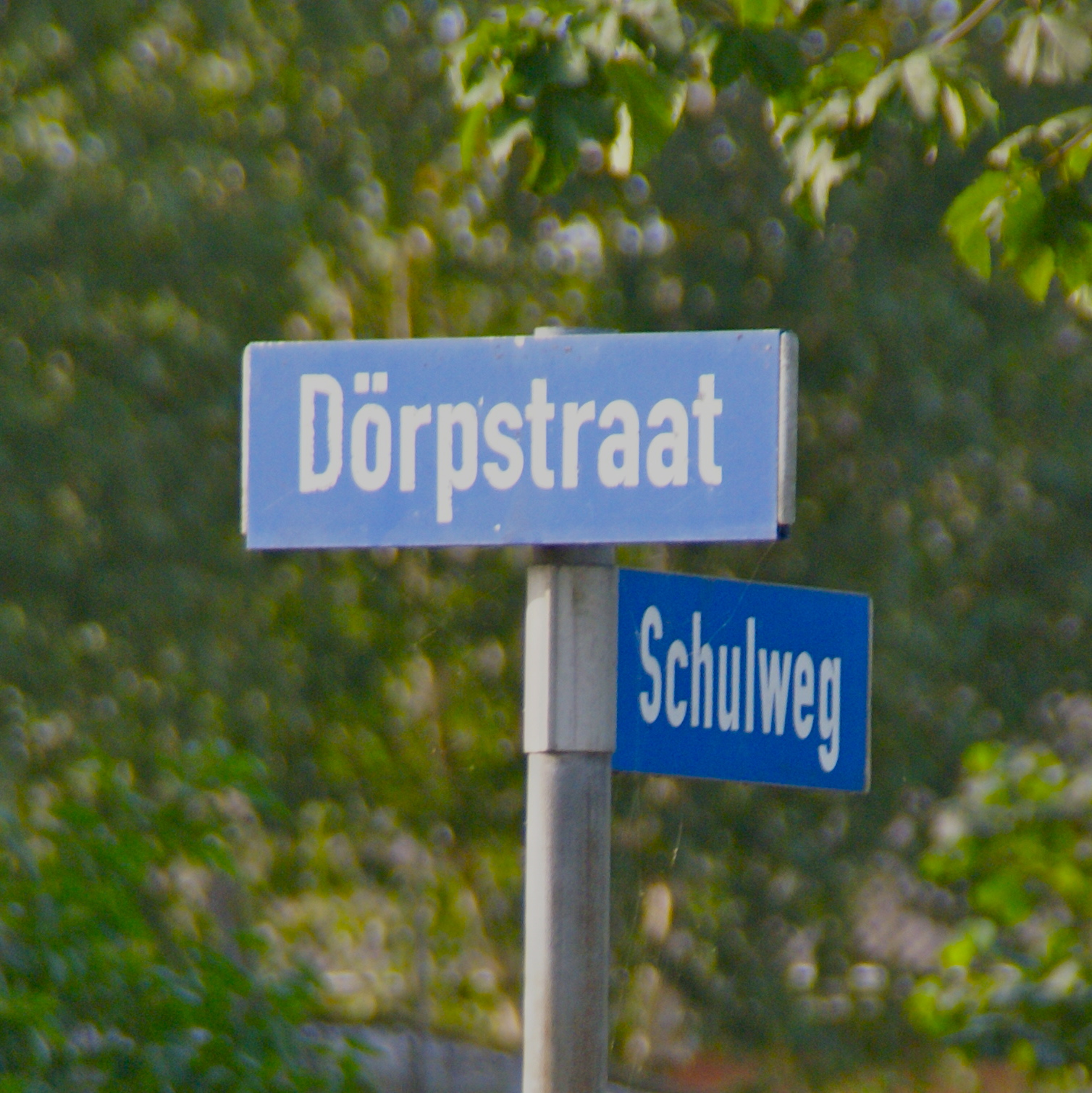 Friedrichsau (Germany): Low German street name